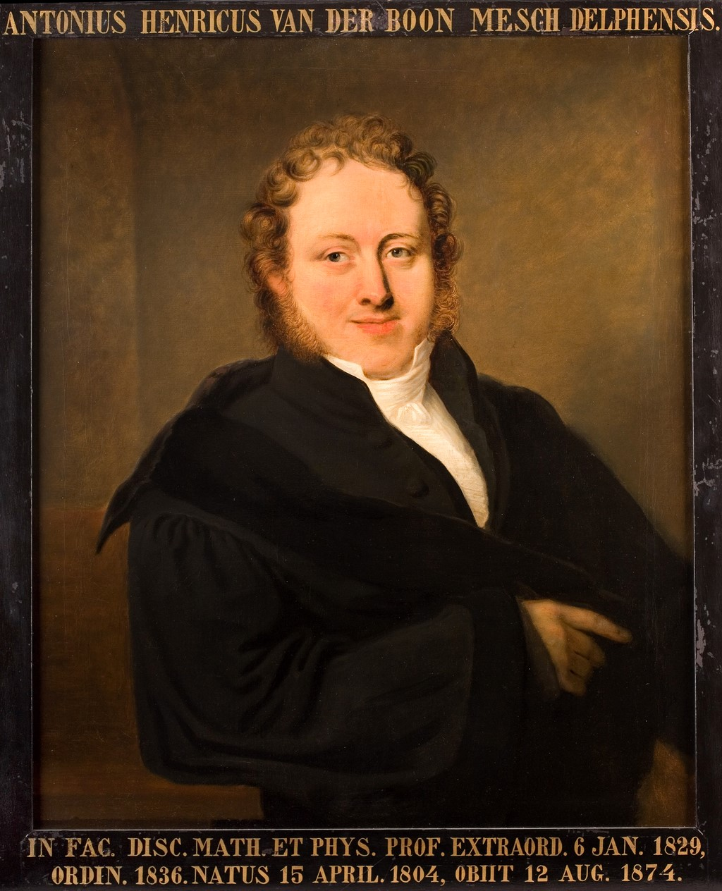 Antony Hendrik van der Boon Mesch (1804-1874), professor chemistry at Leiden University